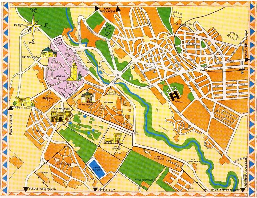 Maps of the city of Meknes, depicting the historical monuments of the old Medina.